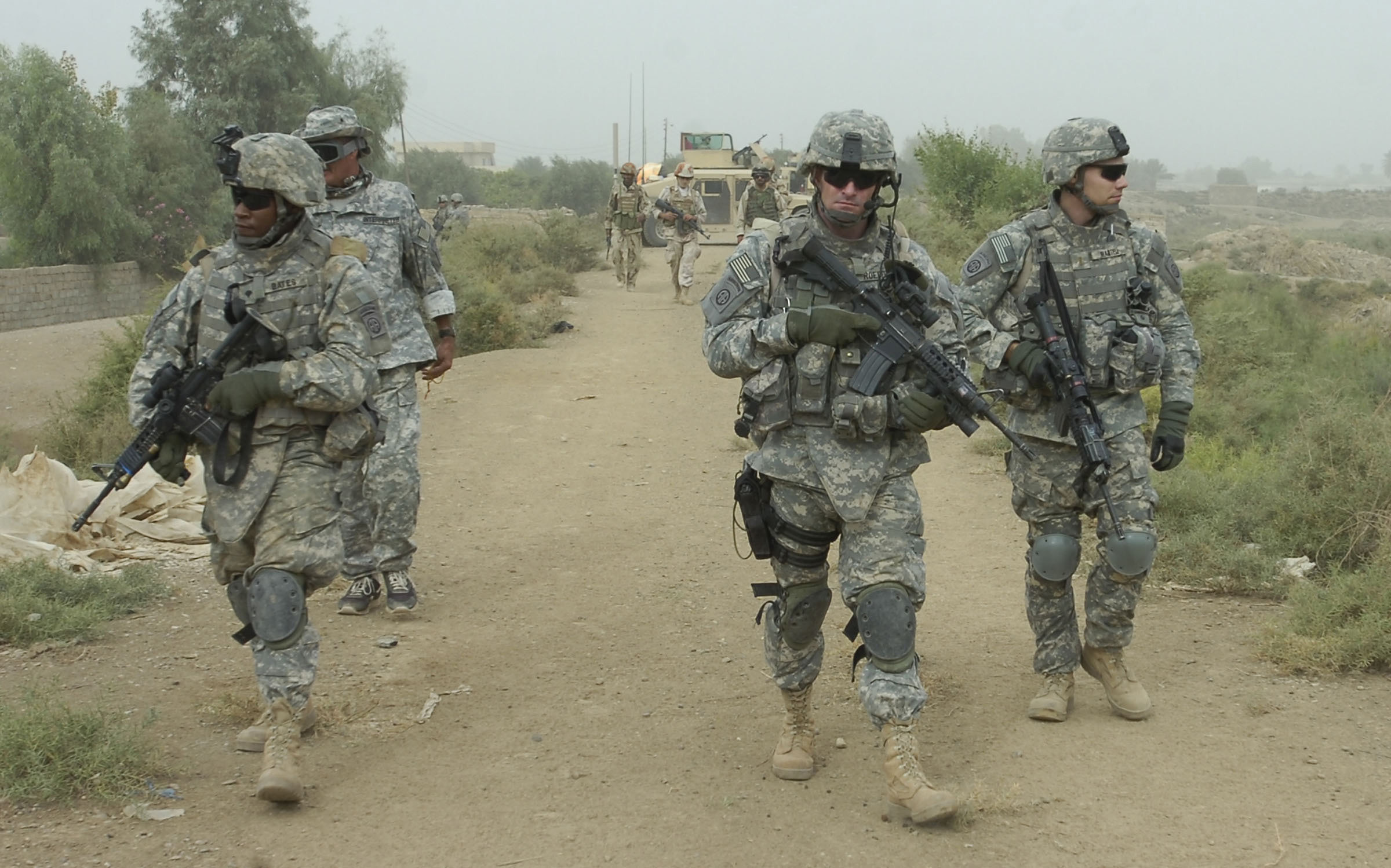 Capt. Brian Roeder (center) leads his troops on a joint patrol with Iraqi army soldiers in Samarra, Iraq, on Oct. 21, 2006. Roeder is the commander of Delta Company, 2nd Battalion, 505th Parachute Infantry Regiment, 82nd Airborne Division.